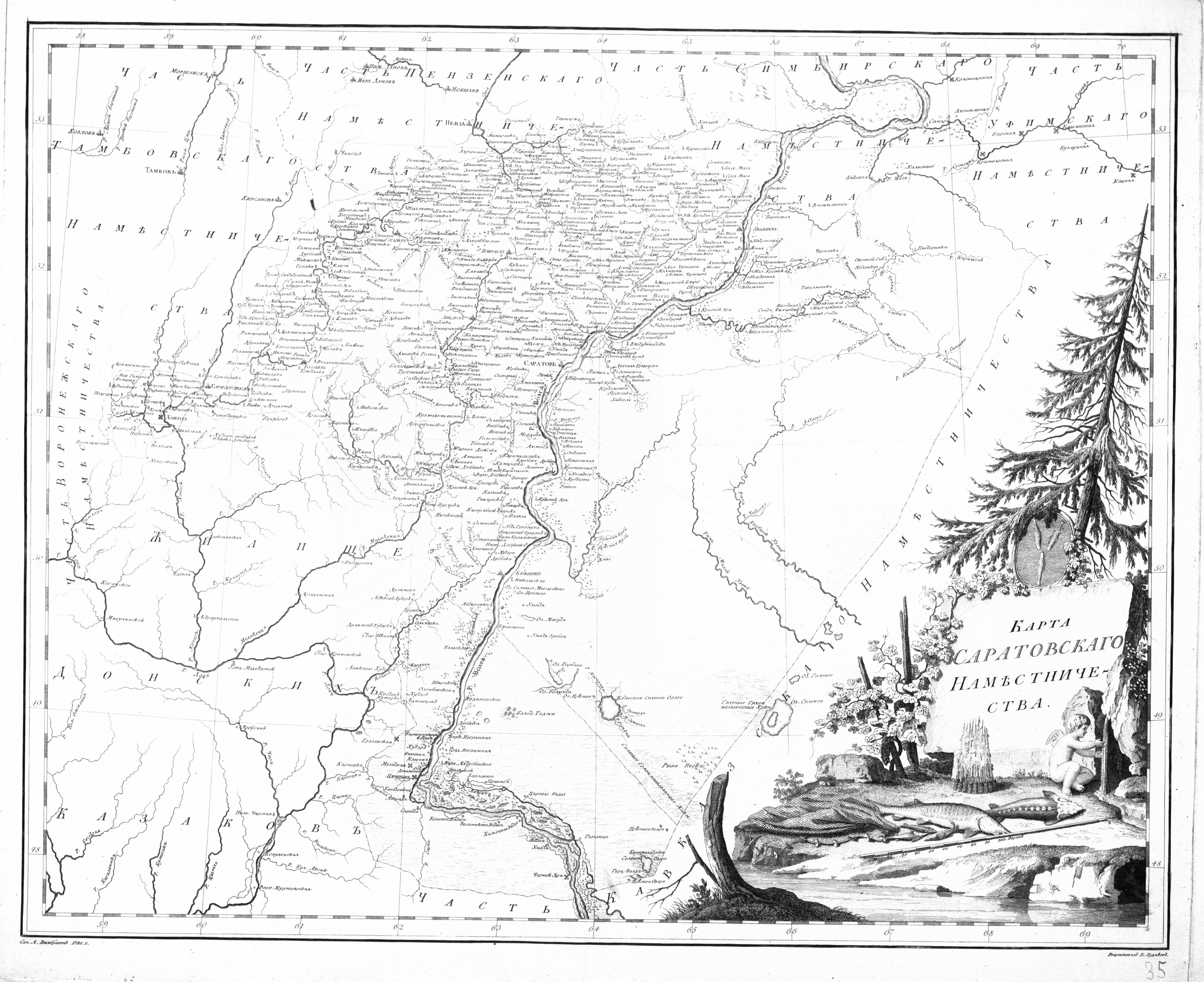 Map of Saratov Namestnichestvo (sheet 35) from official Atlas of the Russian Empire (1792).